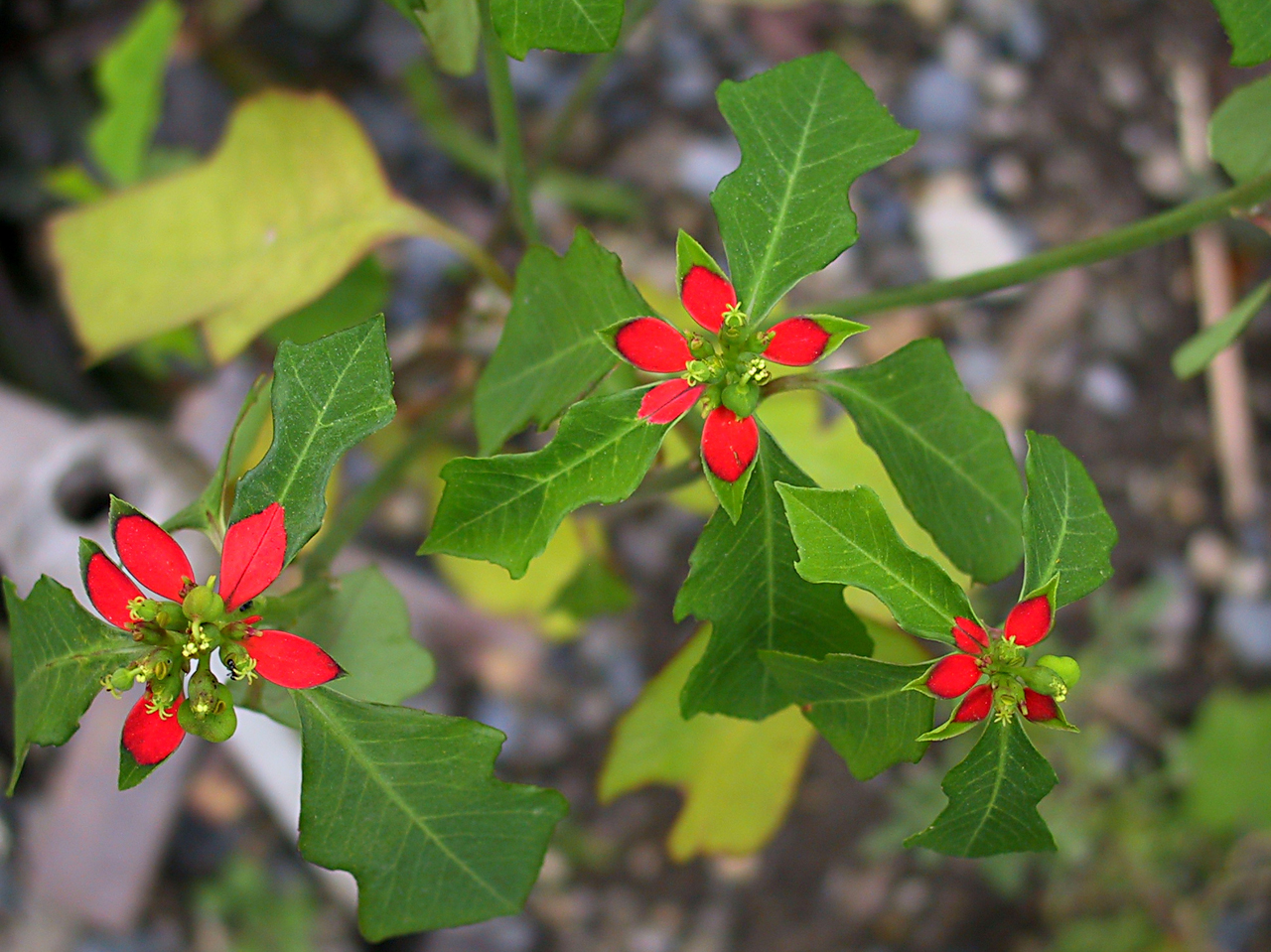 Euphorbia cyathophoraEuphorbia cyathophora